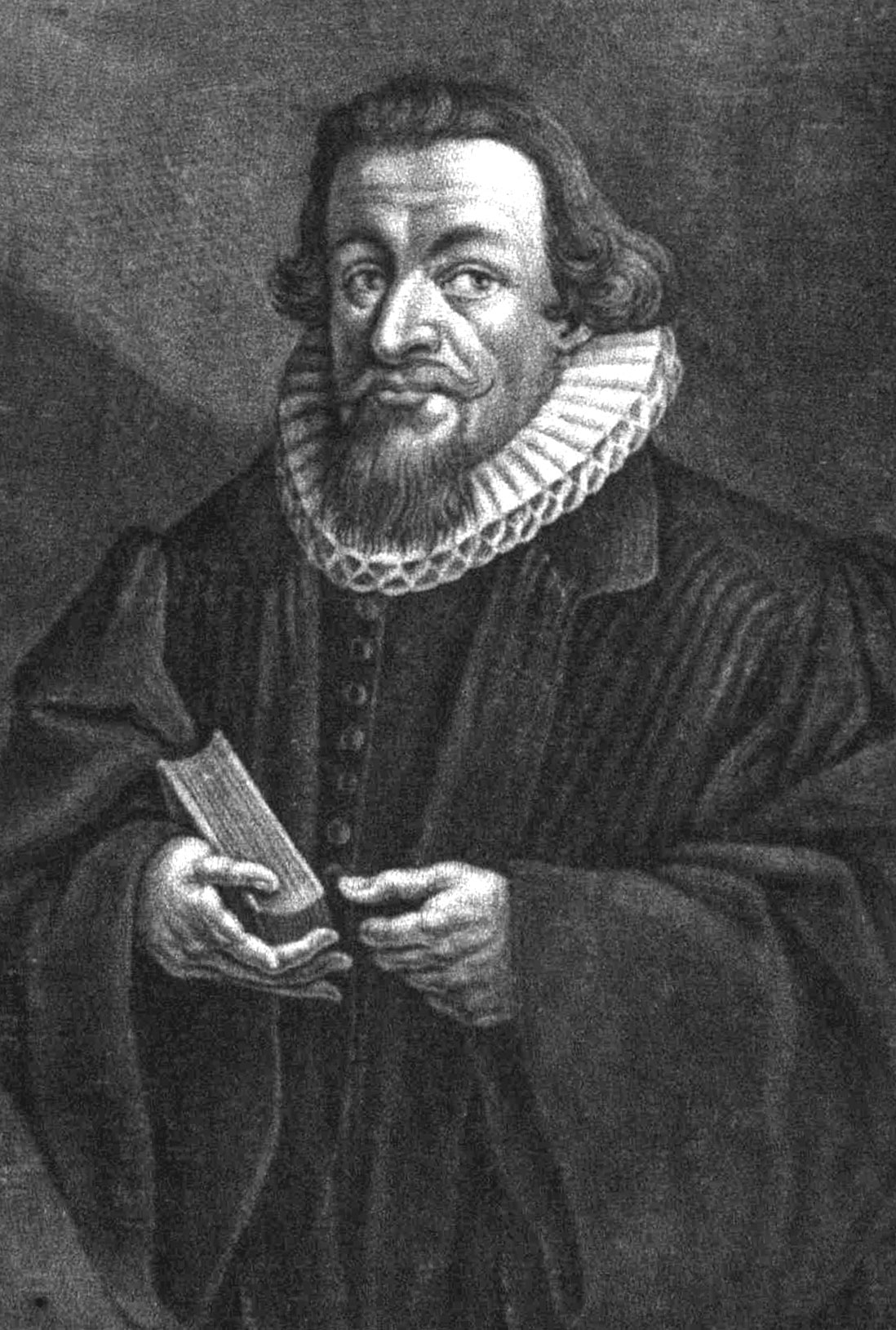 Ortolph Fomann the Younger (1598-1640) german Jurist